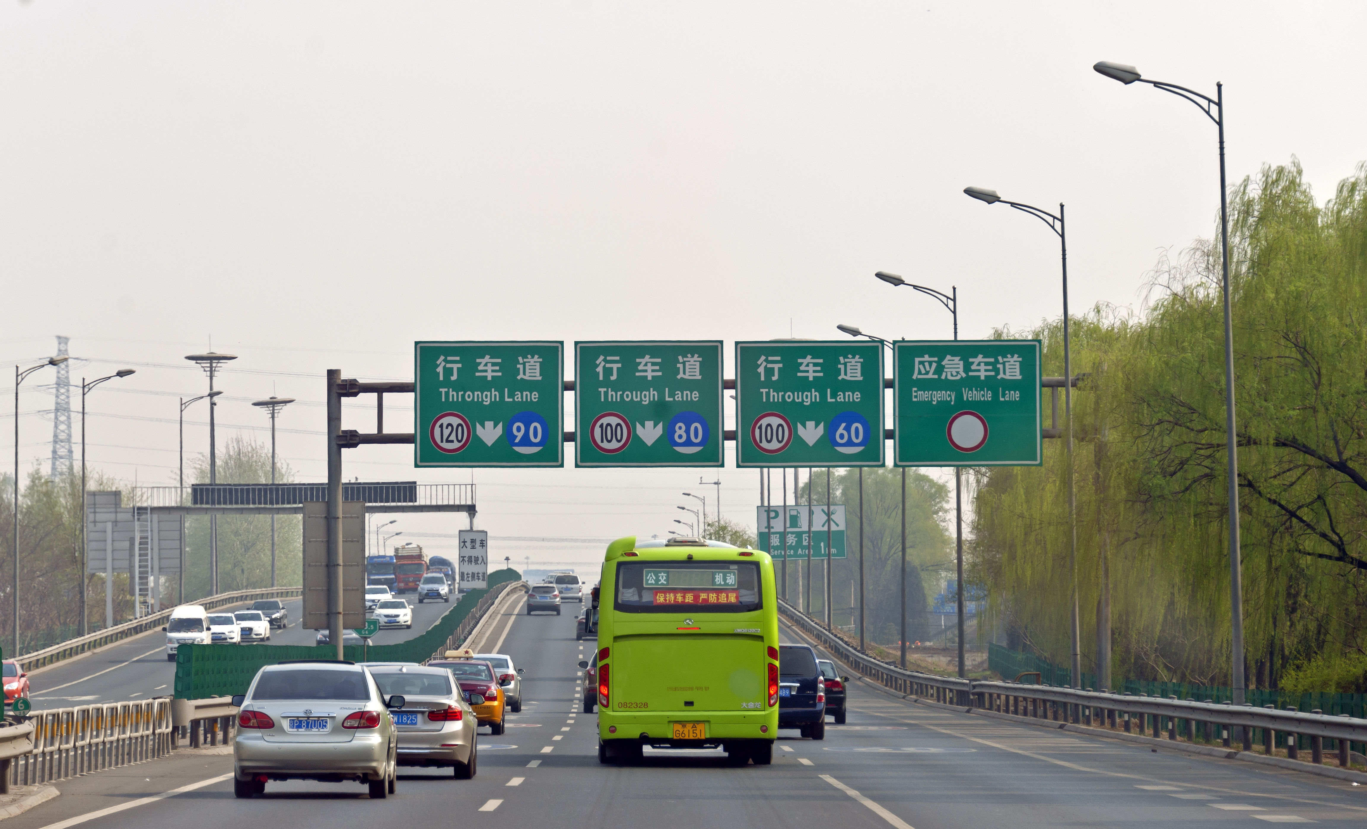 Speed limit signs along gantry on Badaling Expressway portion of the G6 near its eastern terminus in Beijing, photographed from the front of a tour bus.